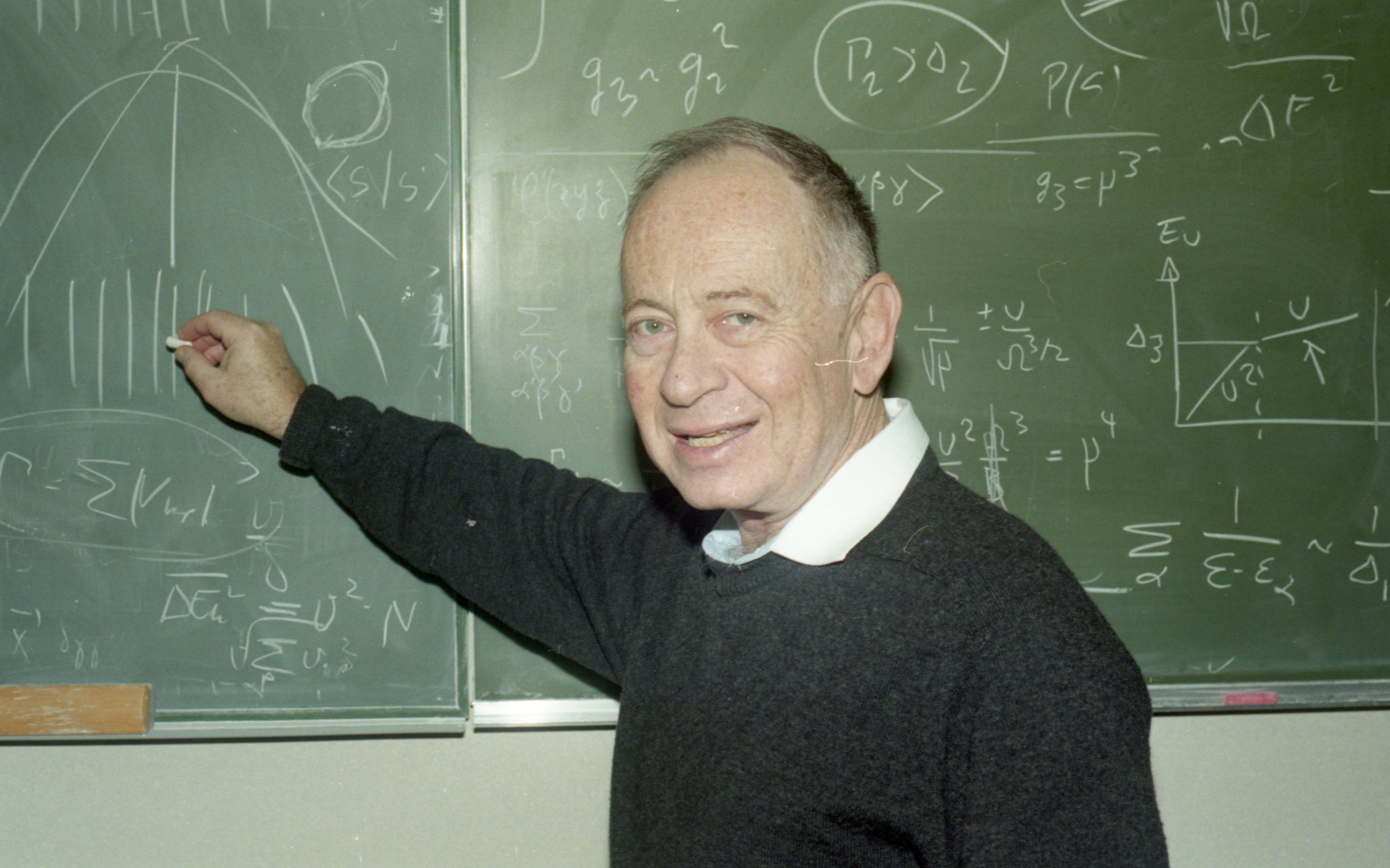 Yoseph Imry as Lorentz Professor at Leiden University, Summer 1996.